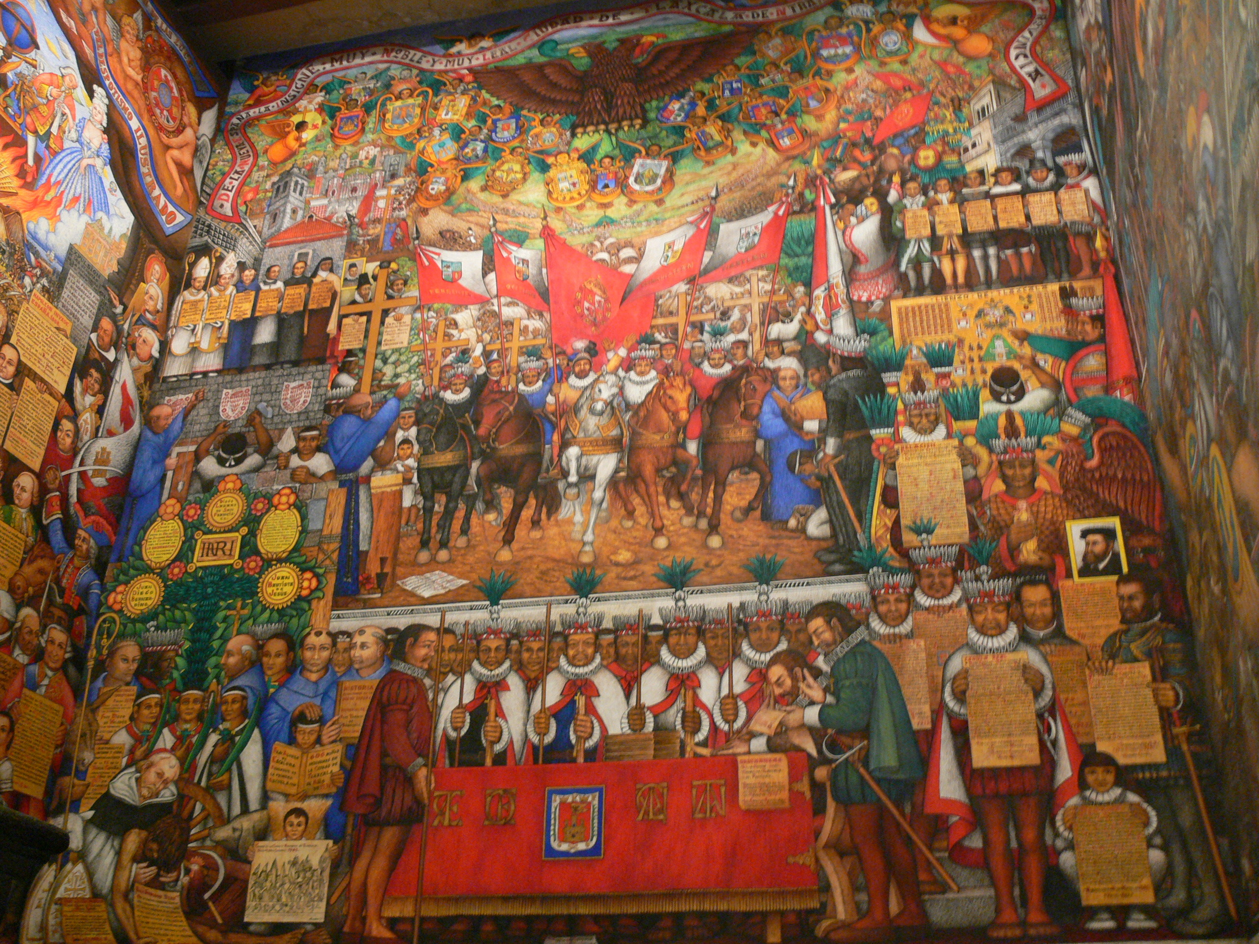 Tlaxcala city. Palacio de Gobierno: Murals - Spanish conquistadors meeting the Indians of Tlaxcala